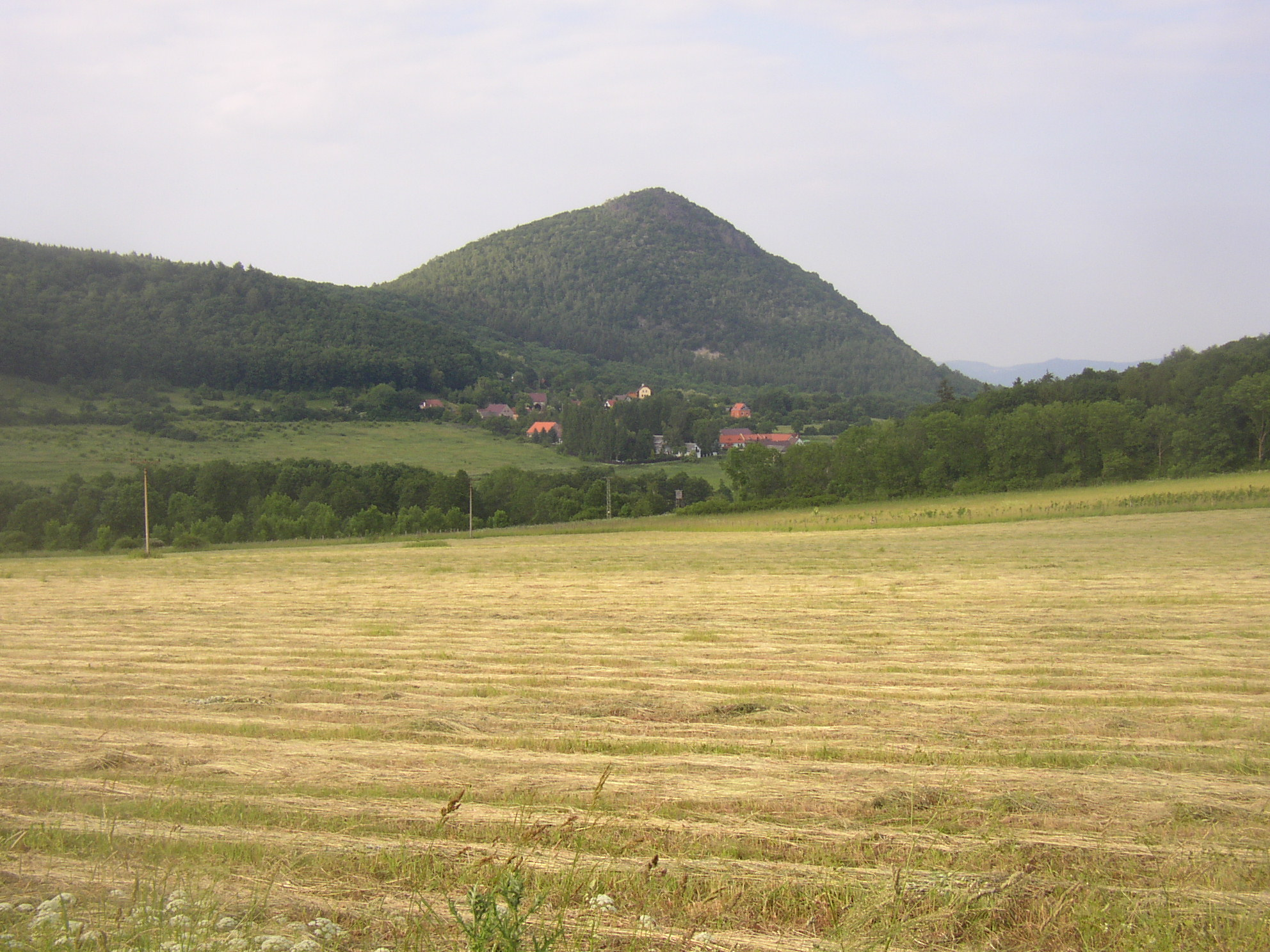 České středhoří, Czech Republic. Lipská hora (688 m) and village of Lhota (part of Třebenice municipality) as seen from southwest.